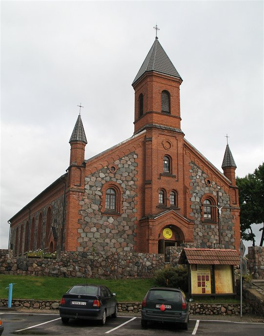 Catholic church of Braslau (Браслаў, Браслав, Braslav, Braslava, Breslauja), located in the western part of Vit(s)ebsk region (province), Belarus.